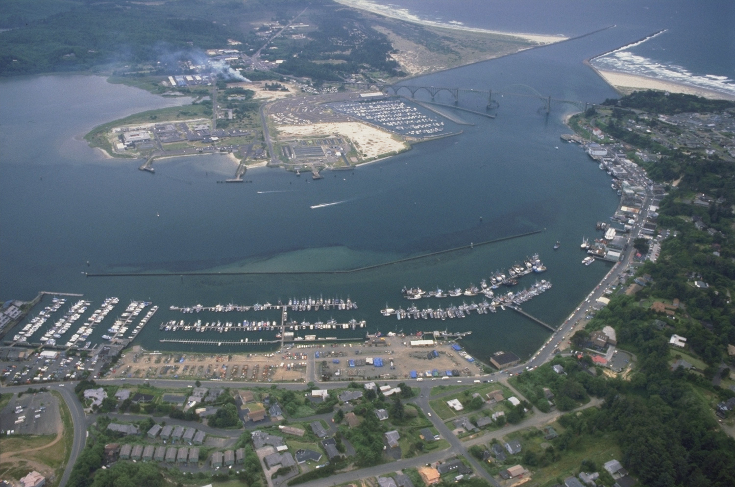 Yaquina Bay near Newport in the U.S. state of Oregon, where the Yaquina River flows into the Pacific Ocean.